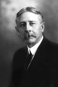 Portrait of Epes Randolph Other information Subject of photograph Epes Randolph died in 1921, two years before 1923